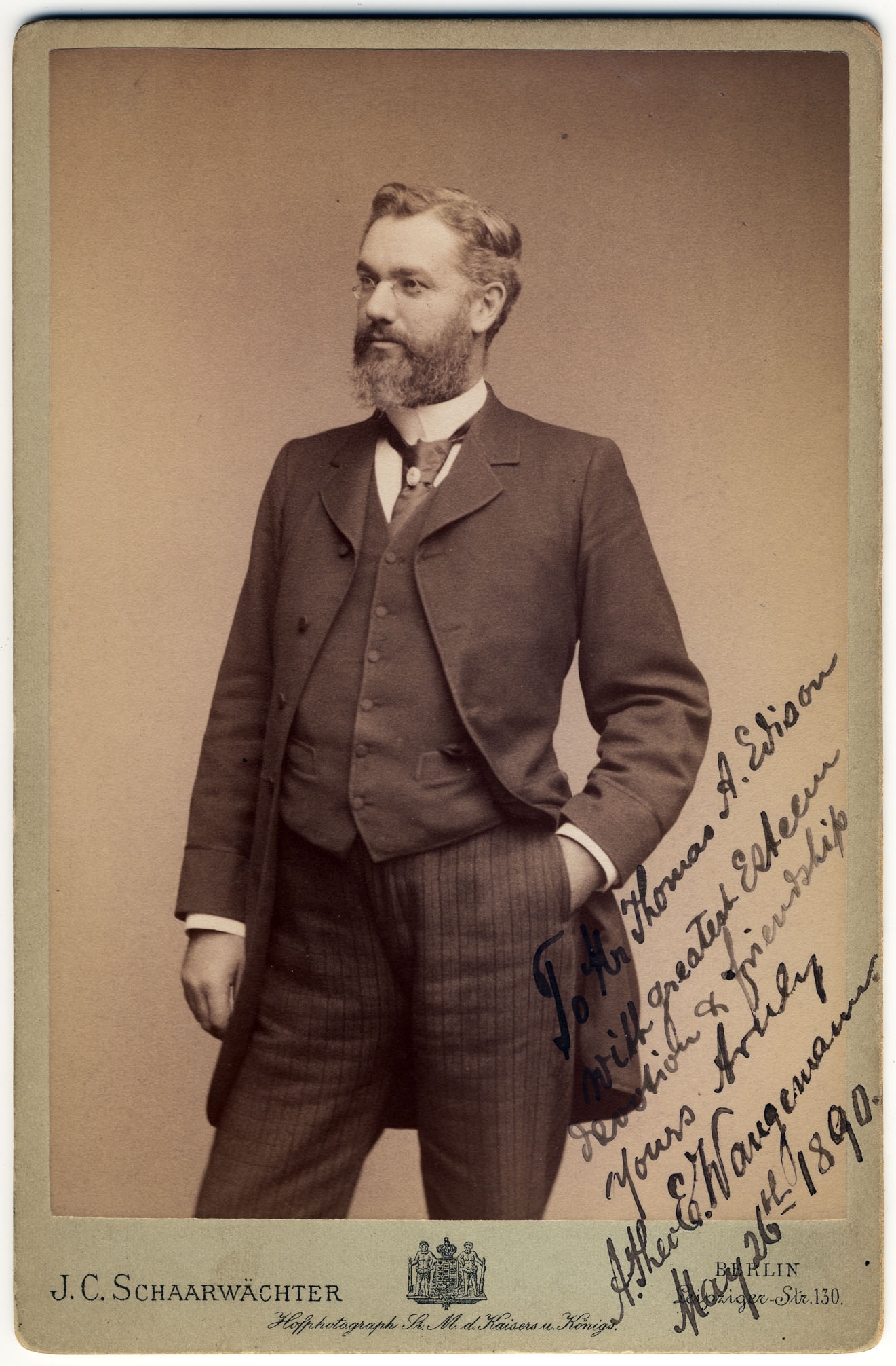 Theo Wangemann photographed in Berlin 1890, while traveling Europe to make early recordings of music and voice with the first phonograph produced by Thomas Edison. The note in the corner reads, "To Mr. Thomas A. Edison / with greatest Esteem / devotion & friendship / Yours truly / A. Theo E. Wangemann / May 26th 1890"